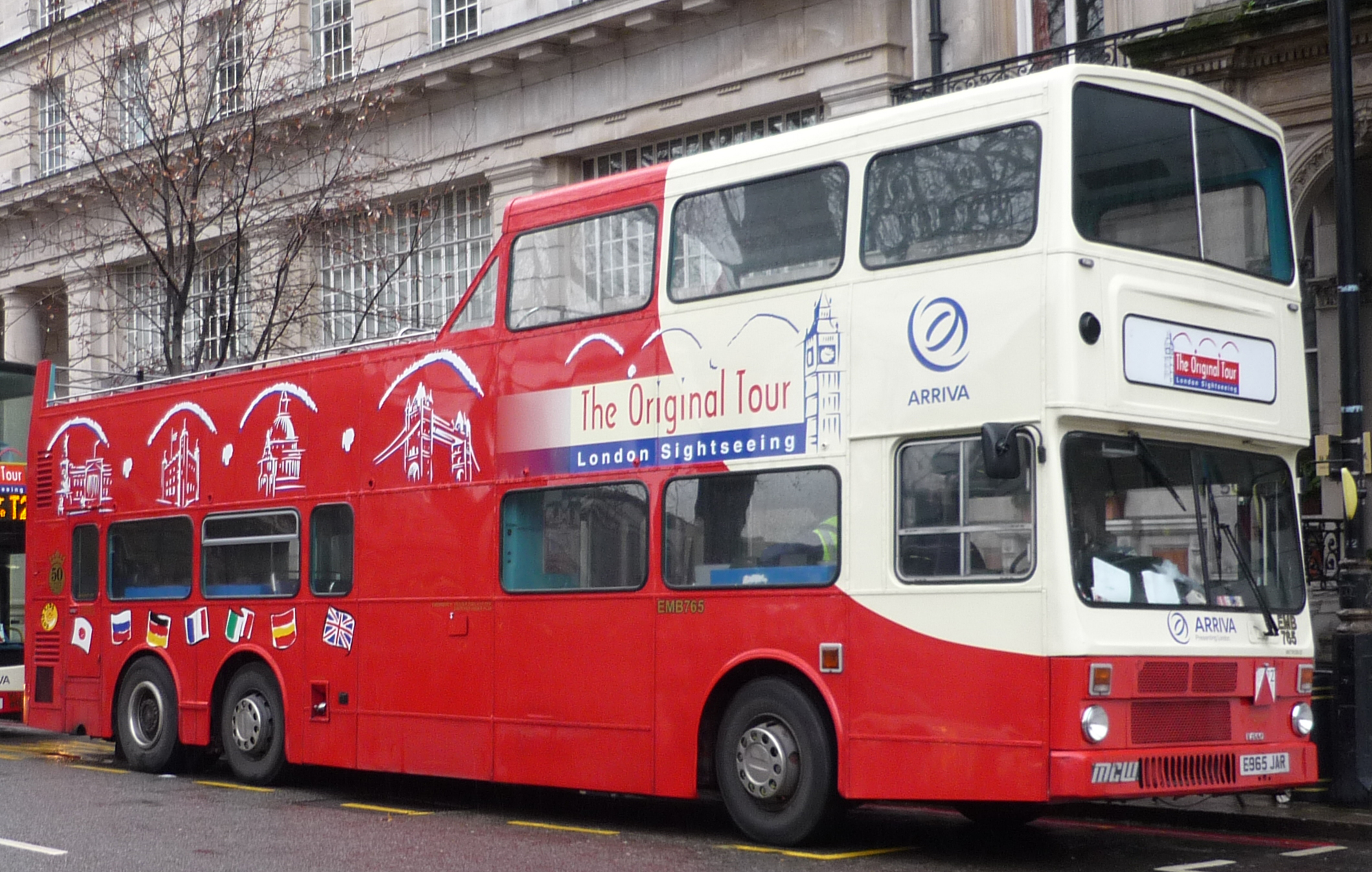 The Original Tour bus EMB765 (reg. E965 JAR), a 1988 MCW Super Metrobus double-decker, pictured standing in Grosvenor Gardens, Victoria, central London, inbetween duties on the company's red tour. It's a high capacity tri-axle 12m long bus, delivered new to Hong Kong operator China Motor Bus as their fleet no. ML64 (reg. DV 4883). See Second-hand Hong Kong tri-axle buses imported to the United Kingdom for a full vehicle history.